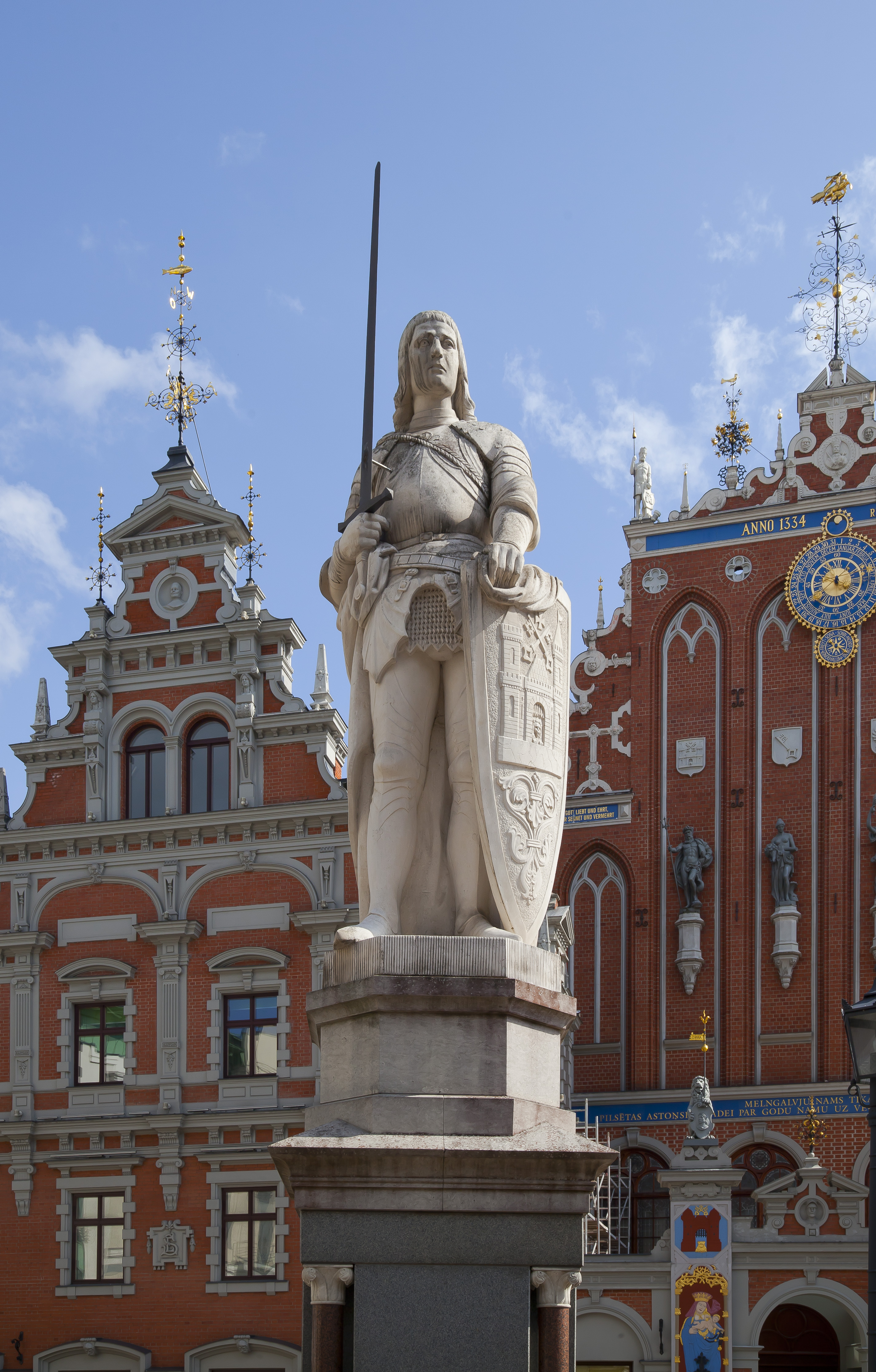 Saint Roland's statue, Riga, Latvia